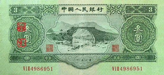 Front of second series 3 yuan renminbi